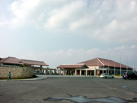 Bankoku Shinryokan